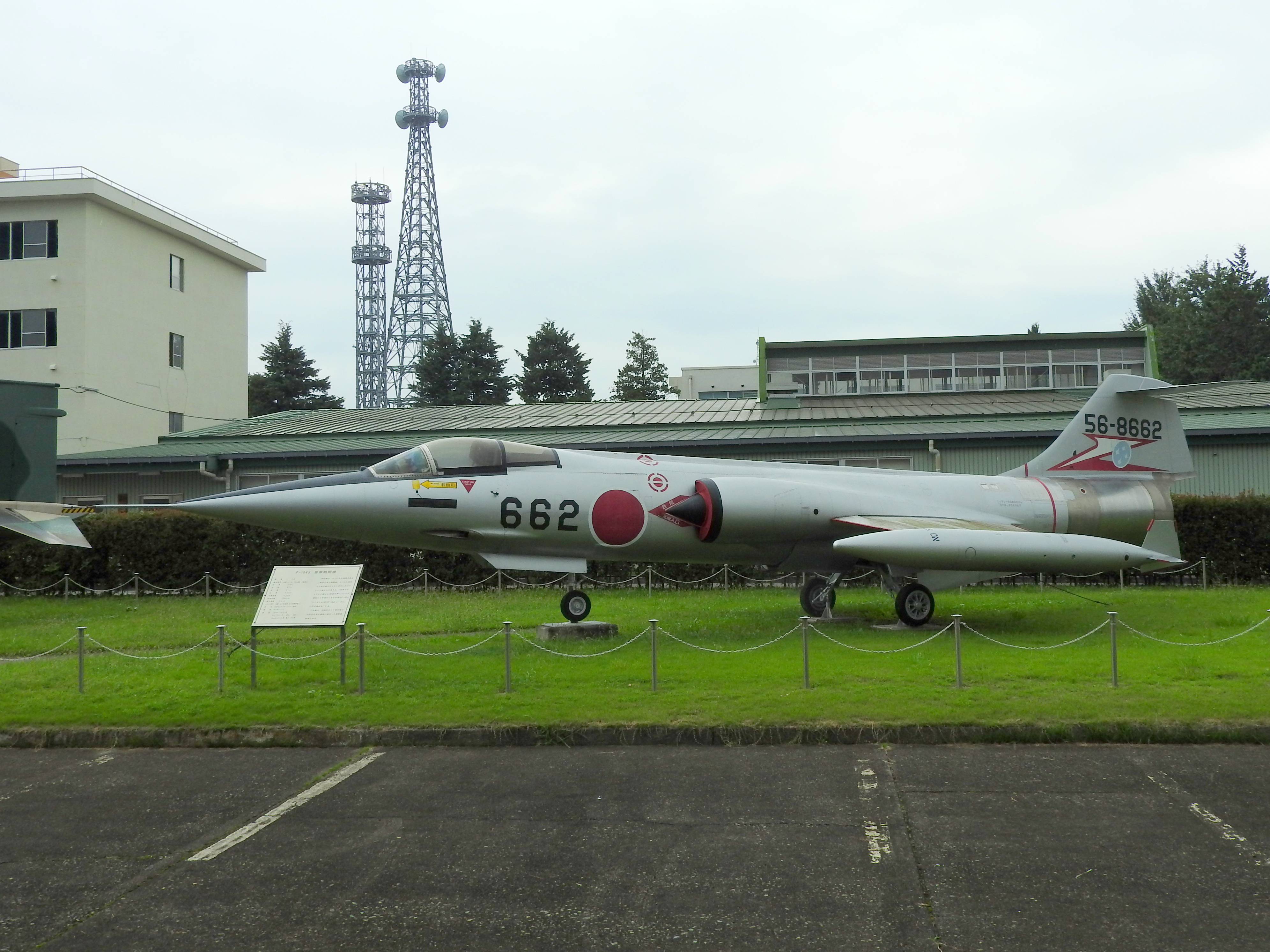 JASDF Lockheed F-104J Starfighter displayed at Fuchū Air Base 56-8662